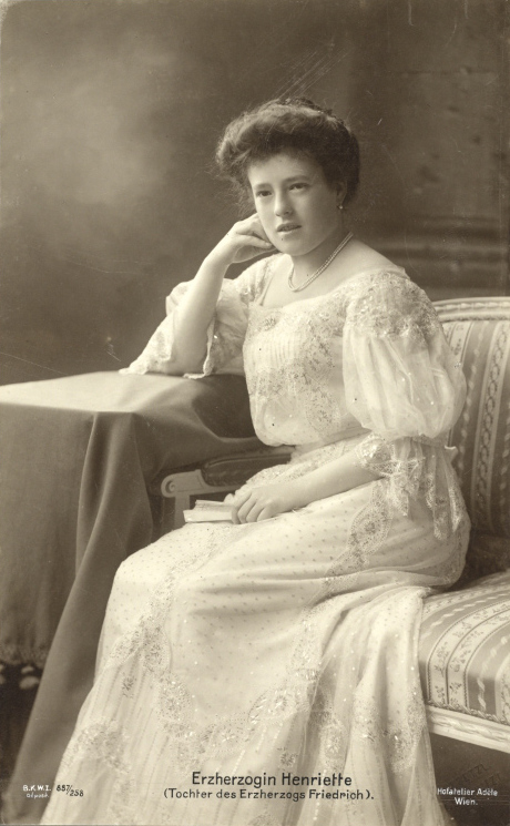 Archduchess Maria Henrietta of Austria (1883-1956)) photograph